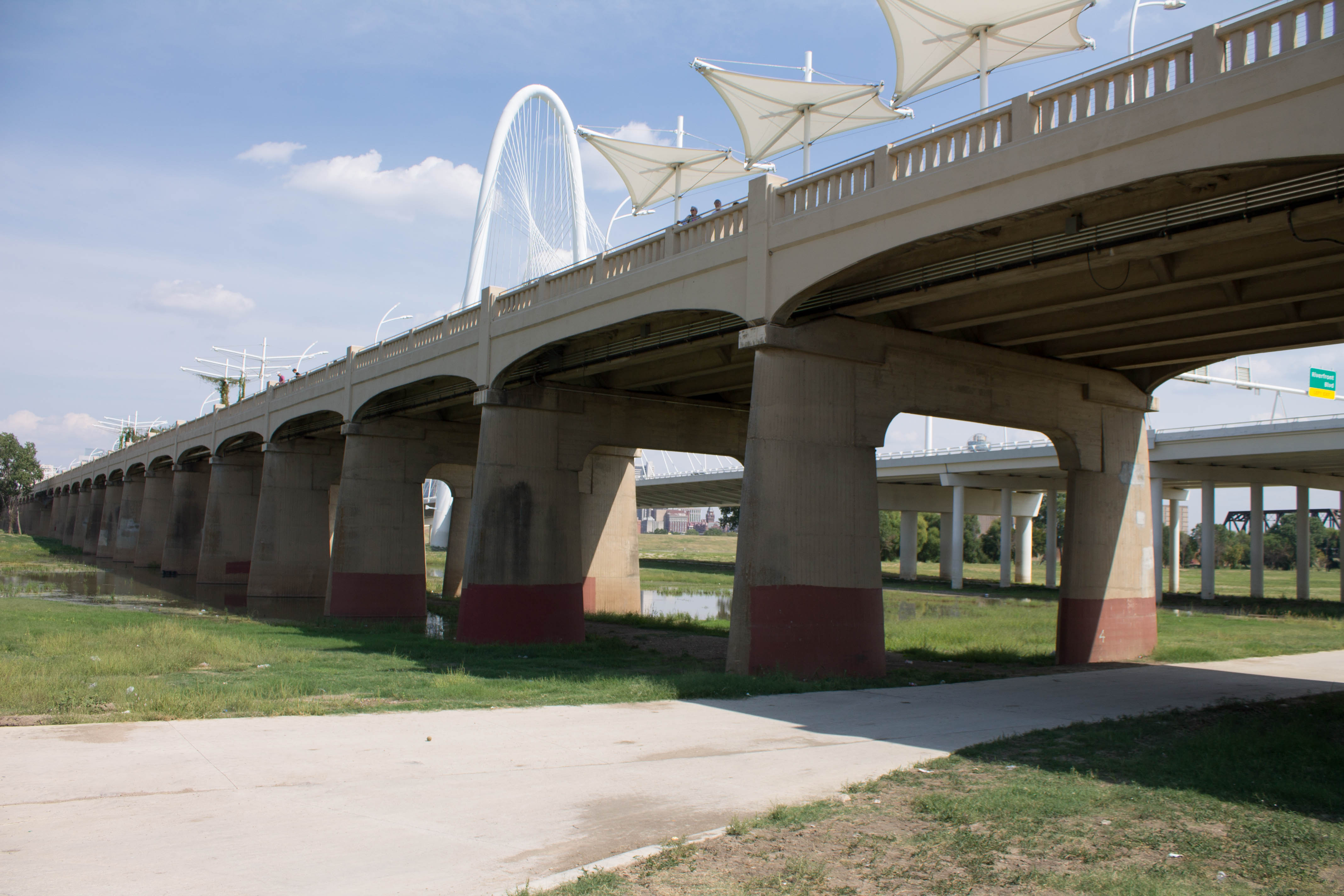 The Lamar-McKinney Bridge is located in Dallas, Texas.